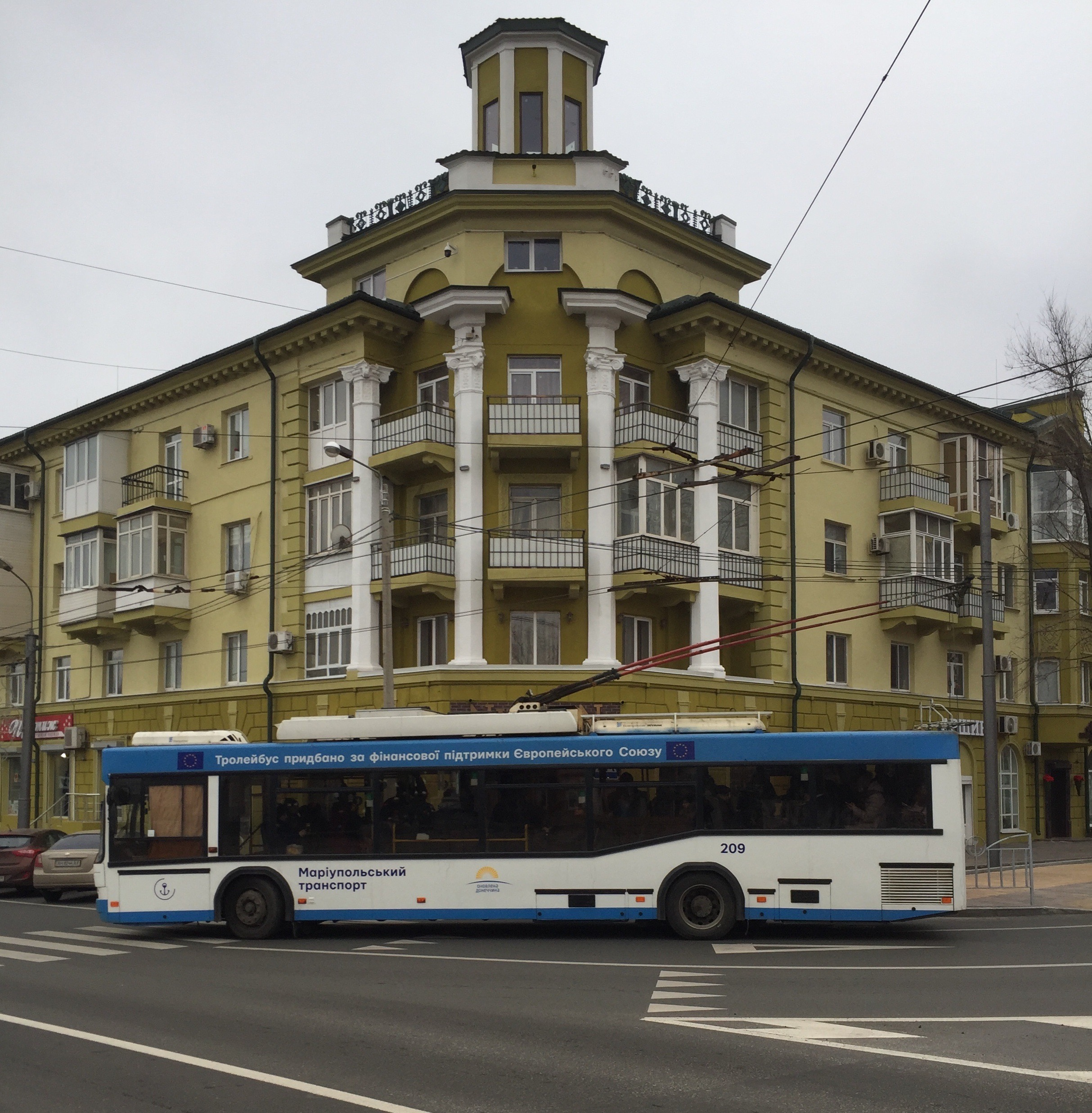 Trolleybus MAZ in Mariupol